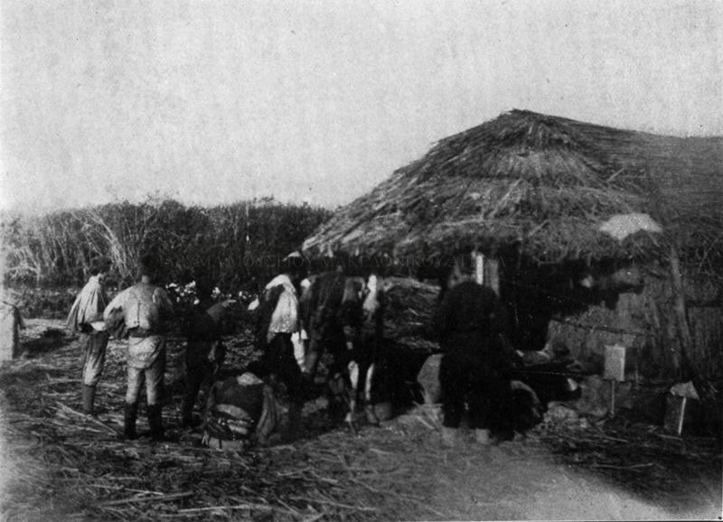 Bulgarian revolutionaries of Luka Ivanov in Enidzhevardar lake,Macedonia